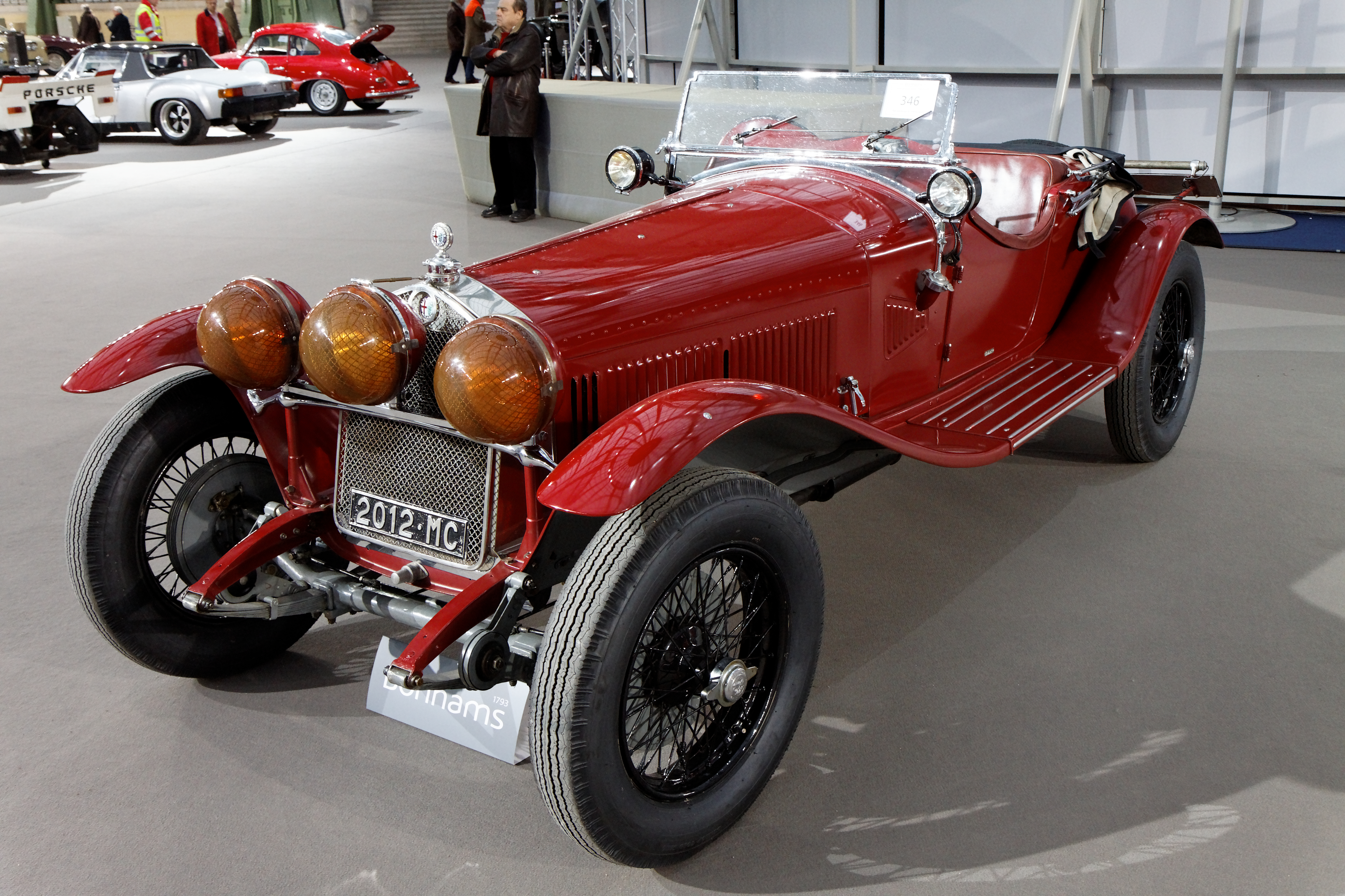 Alfa Romeo Type 6C 1750 Gran Sport Spyder Zagato of 1930 frame n.8513033, official Scuderia Ferrari, driven by Luigi Scarfiotti in the IV Mille Miglia.